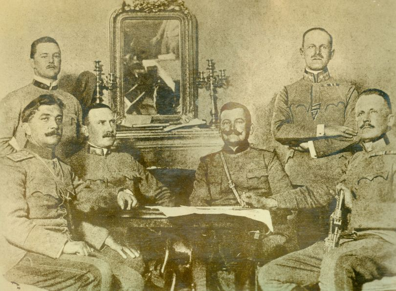 Surrender of Montenegro in 1916 during the First World War.